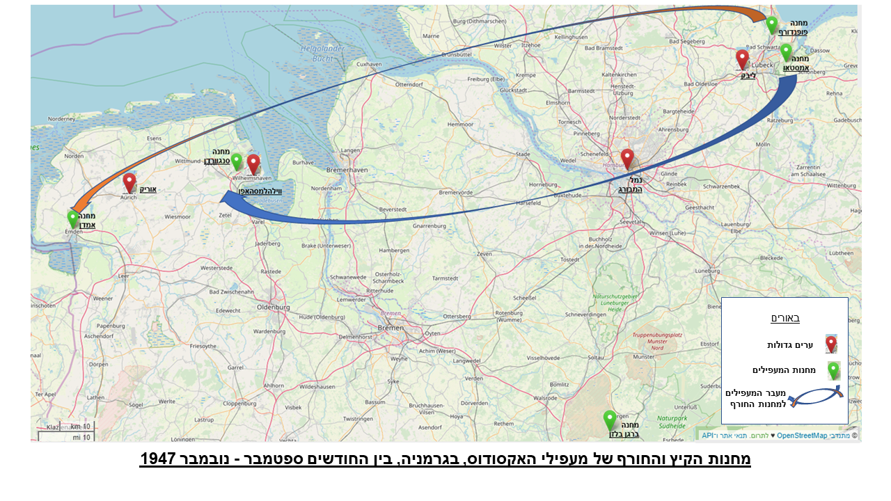 The summer and winter DP. camps of the exodus immigrants - in Germany - from September to November 1947 This map may be incomplete, and may contain errors. Don't rely solely on it for navigation.